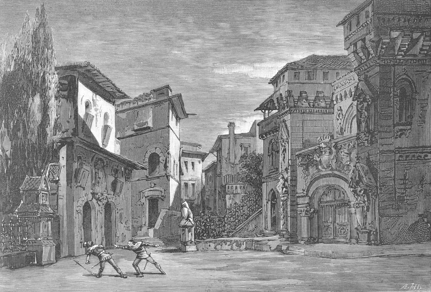 Massenet - Le Cid - 1885 - act 2, scene 3 - La mort du comte de Gormas